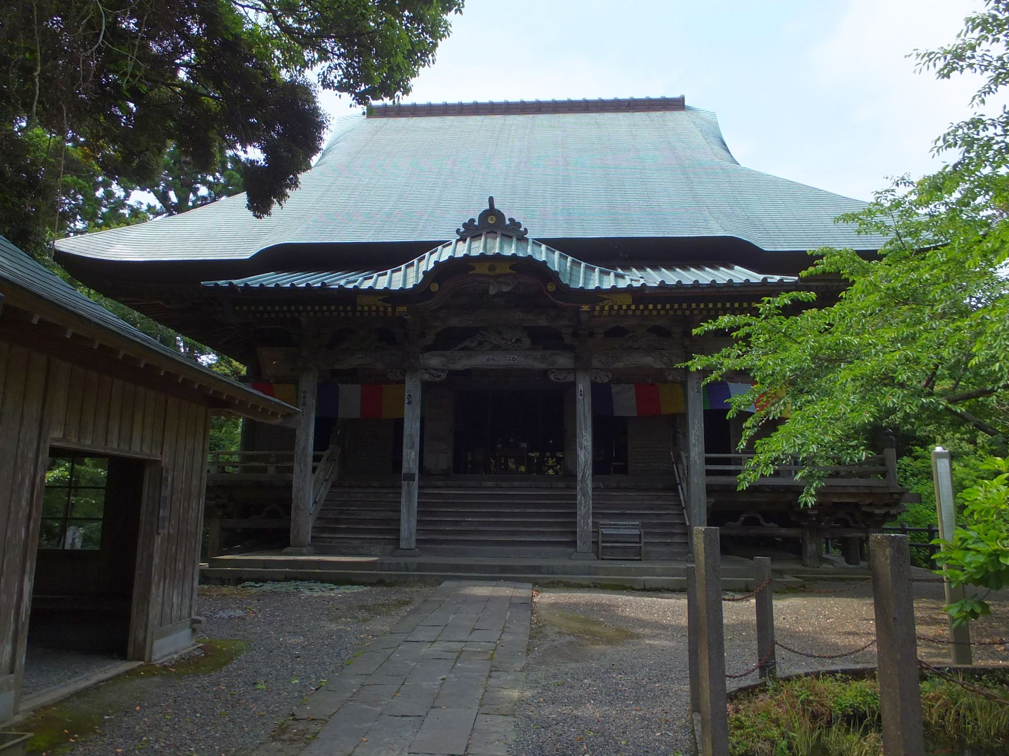 Main hall of Kiyomizu-dera temple in Isumi, Chiba prefecture